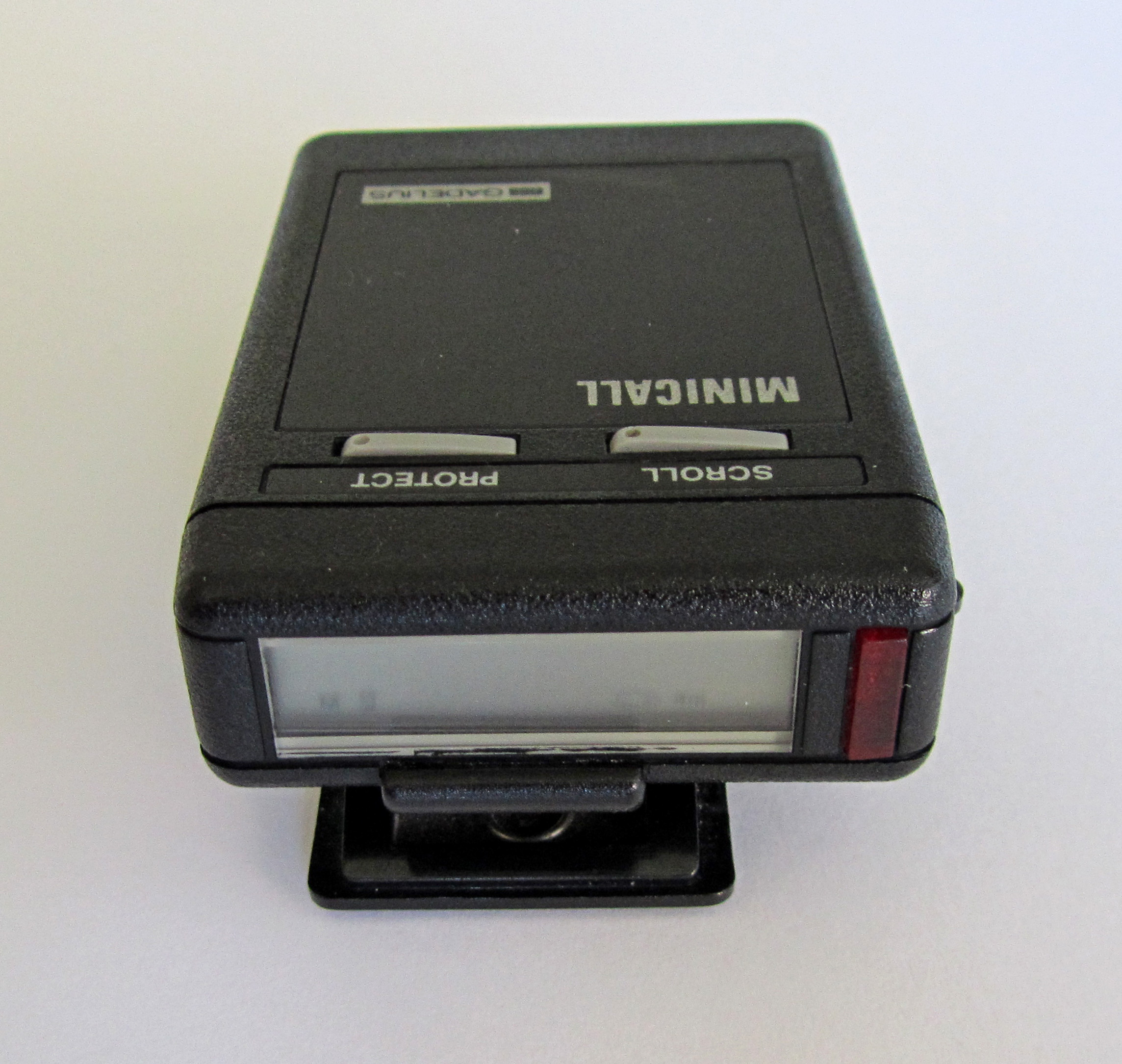 An old pager/beeper